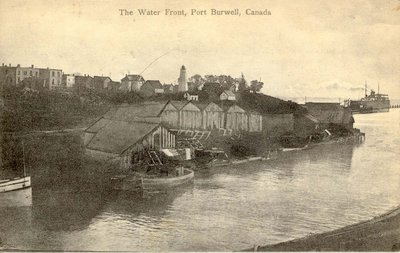 Black and white postcard of the harbour at Port Burwell, ON. Otter Creek is lined with fishing shacks and nets being hung out to dry. The Pennsylvania-Ontario Transportation Company railroad car ferry ASHTABULA lies in the harbour.